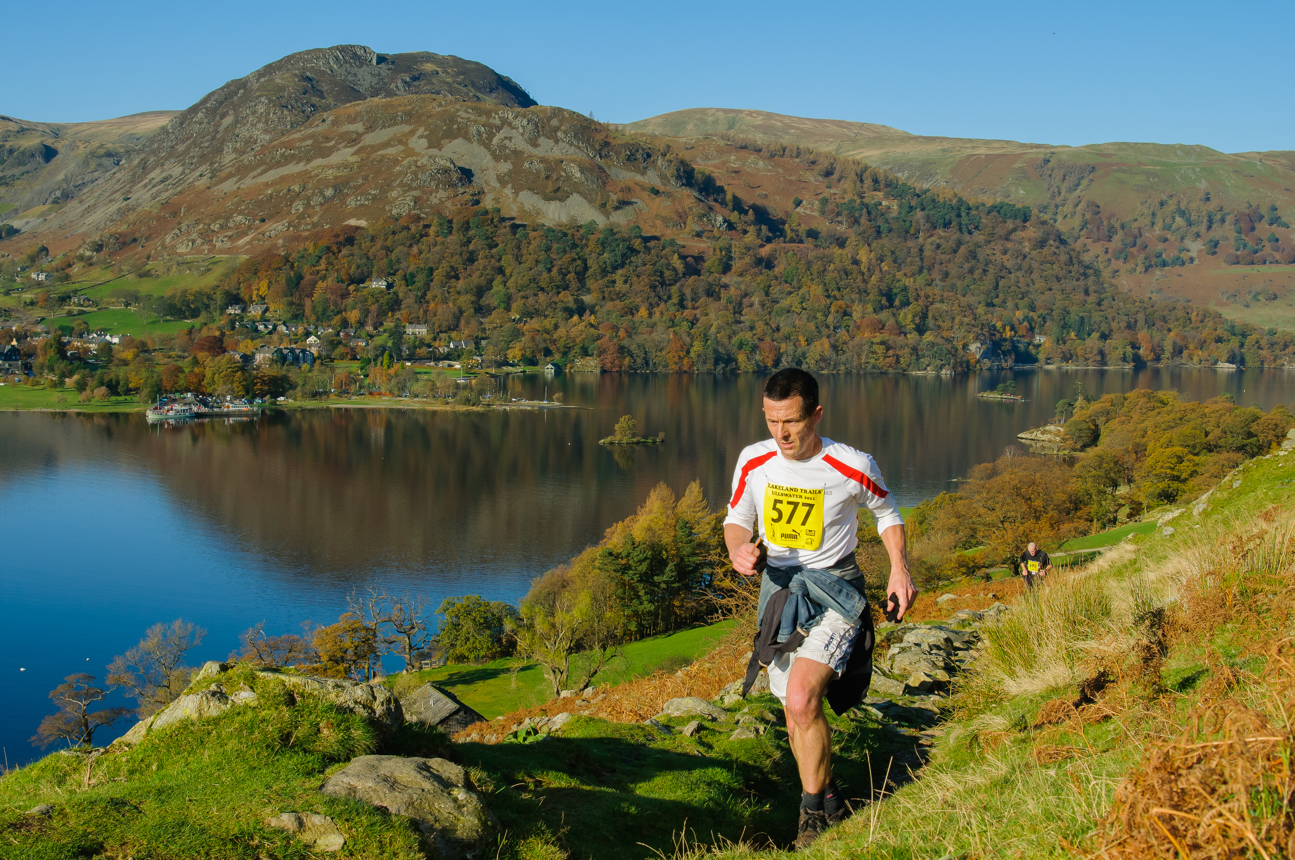 Photo taken on the banks of Ullswater lake, Lake District. Sunday 6 November 2011